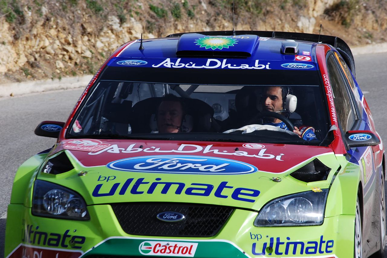 Khalid al-Qassimi driving his Ford Focus RS WRC 07 on a road section during the 2008 Monte Carlo Rally.